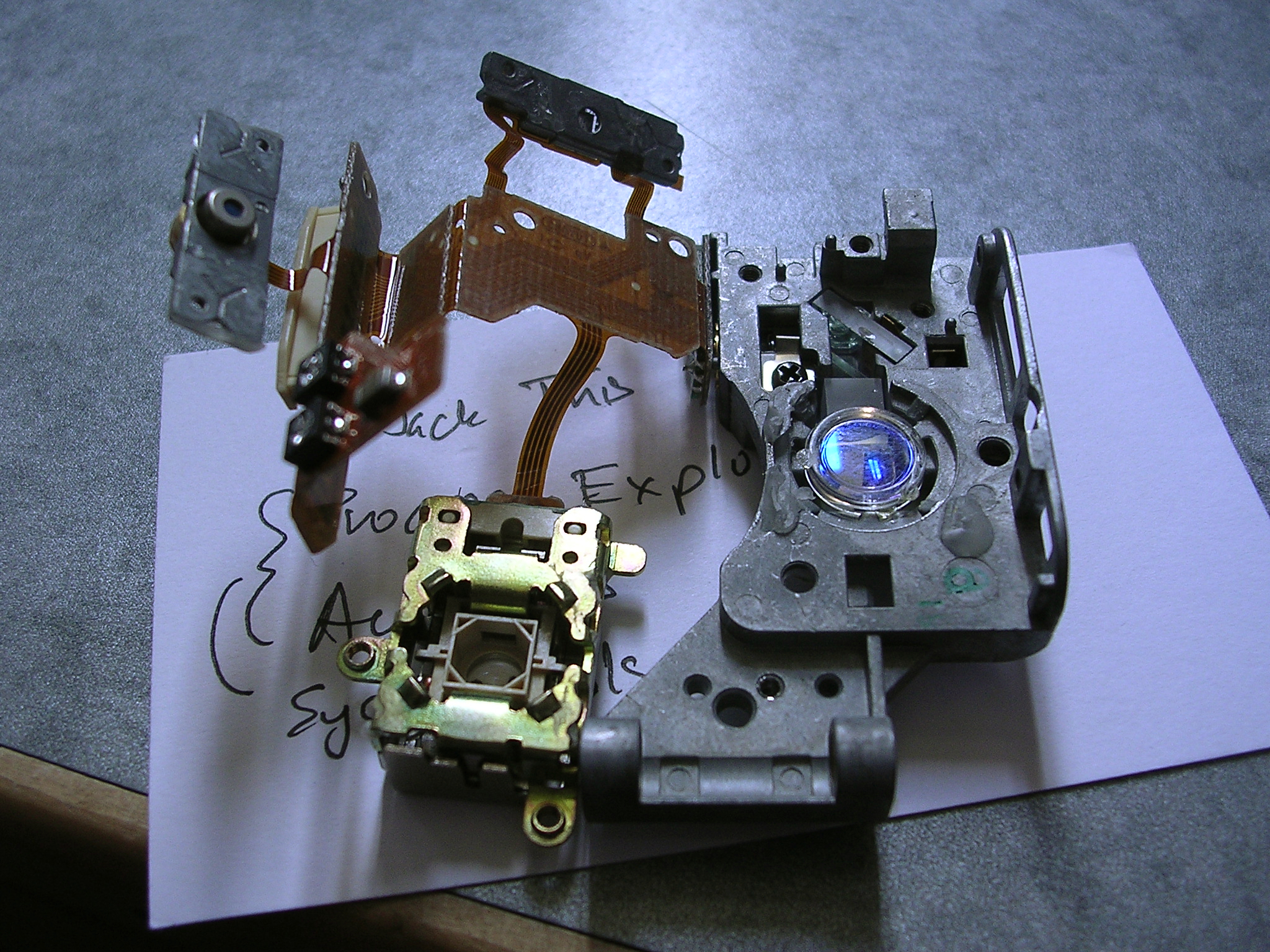 A pseudo-exploded view of a disassembled laser head from an old CD-ROM drive. The infrared laser (top left), detector (top), and most of the lenses are visible. The back of a business card is shown for size reference.